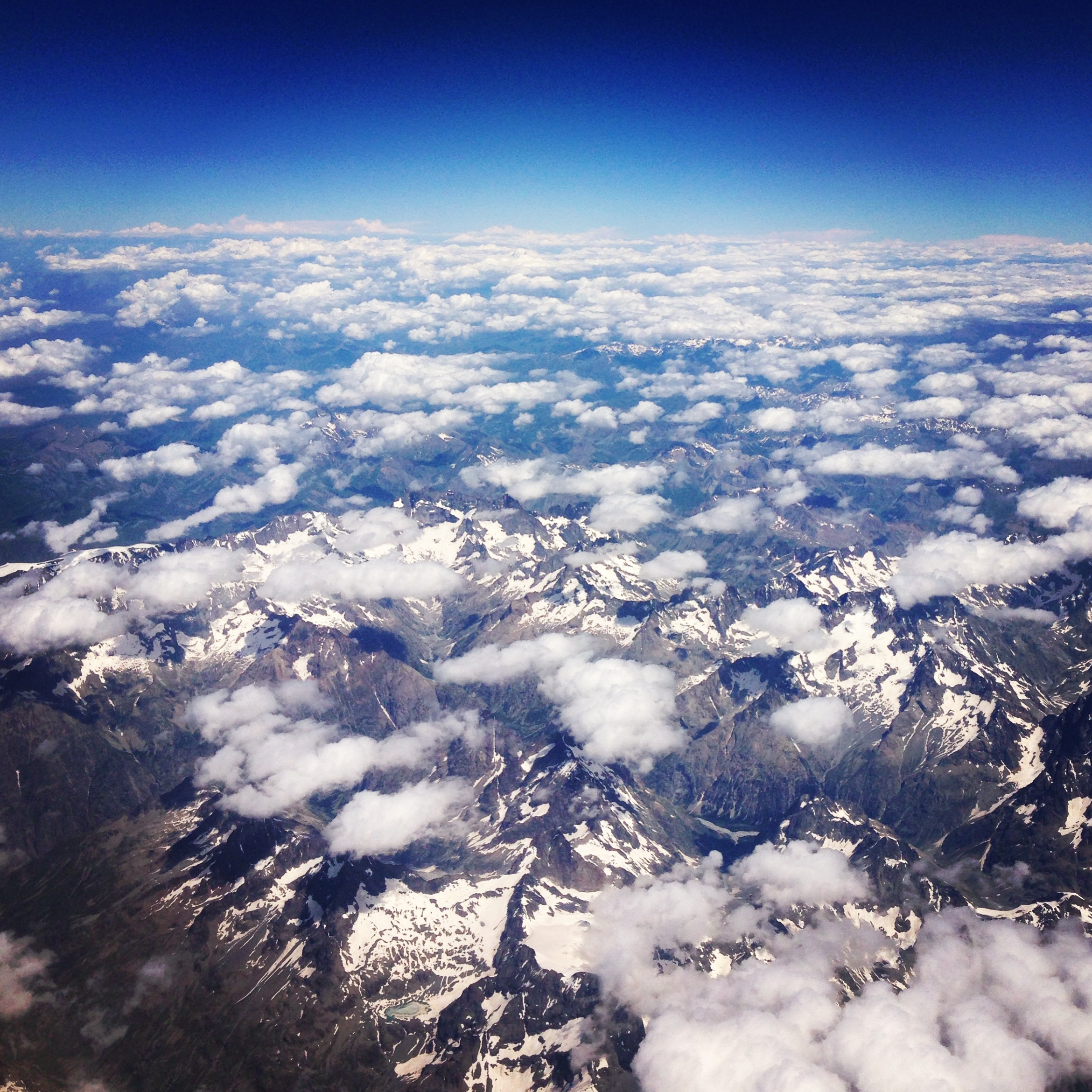 The mighty mountains reach out to the Cosmos